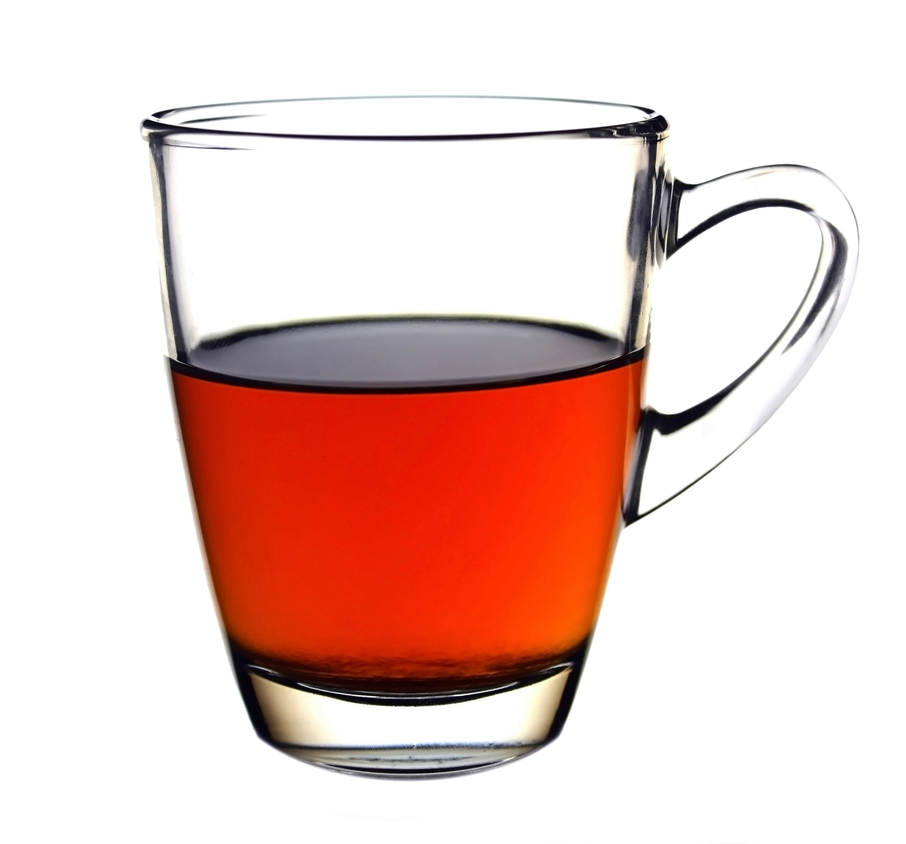 Cup of (black) tea